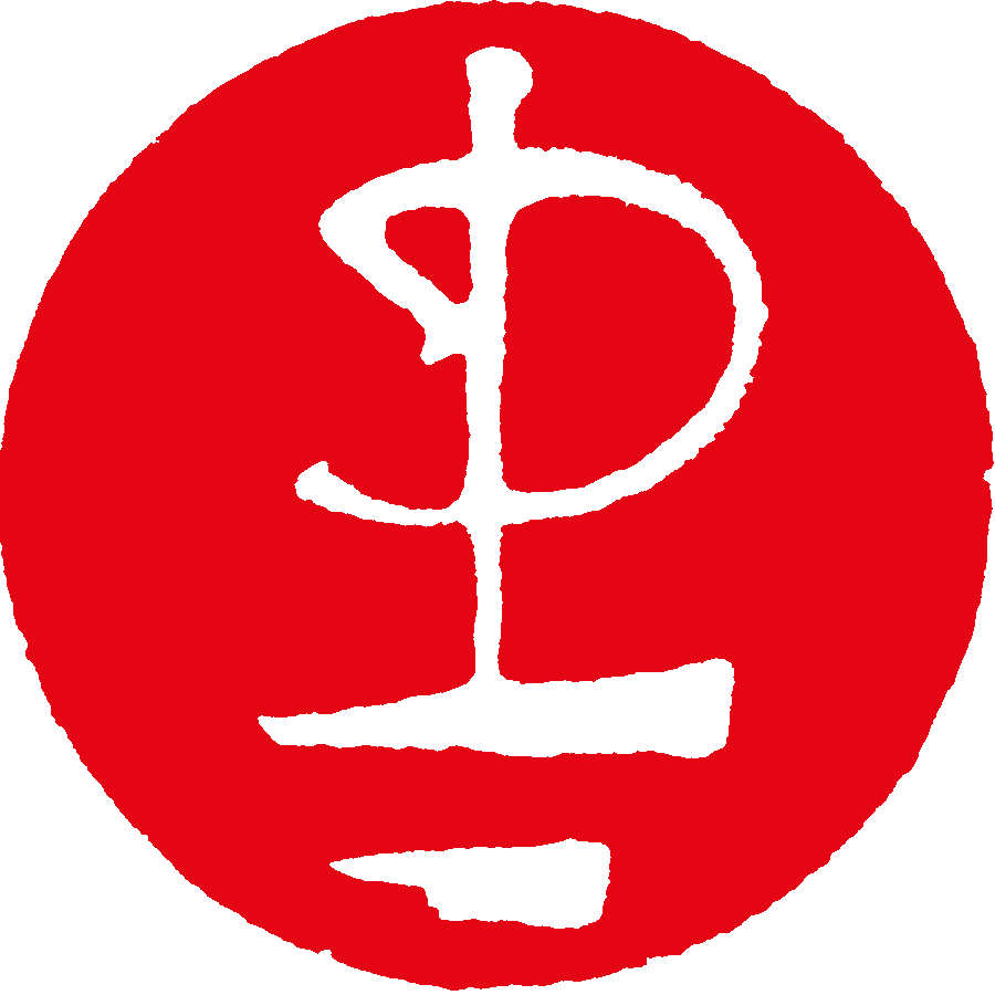 Logotype of the band Pink Floyd.